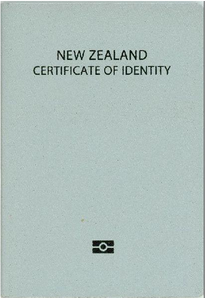 Front cover of New Zealand Certificate of Identity